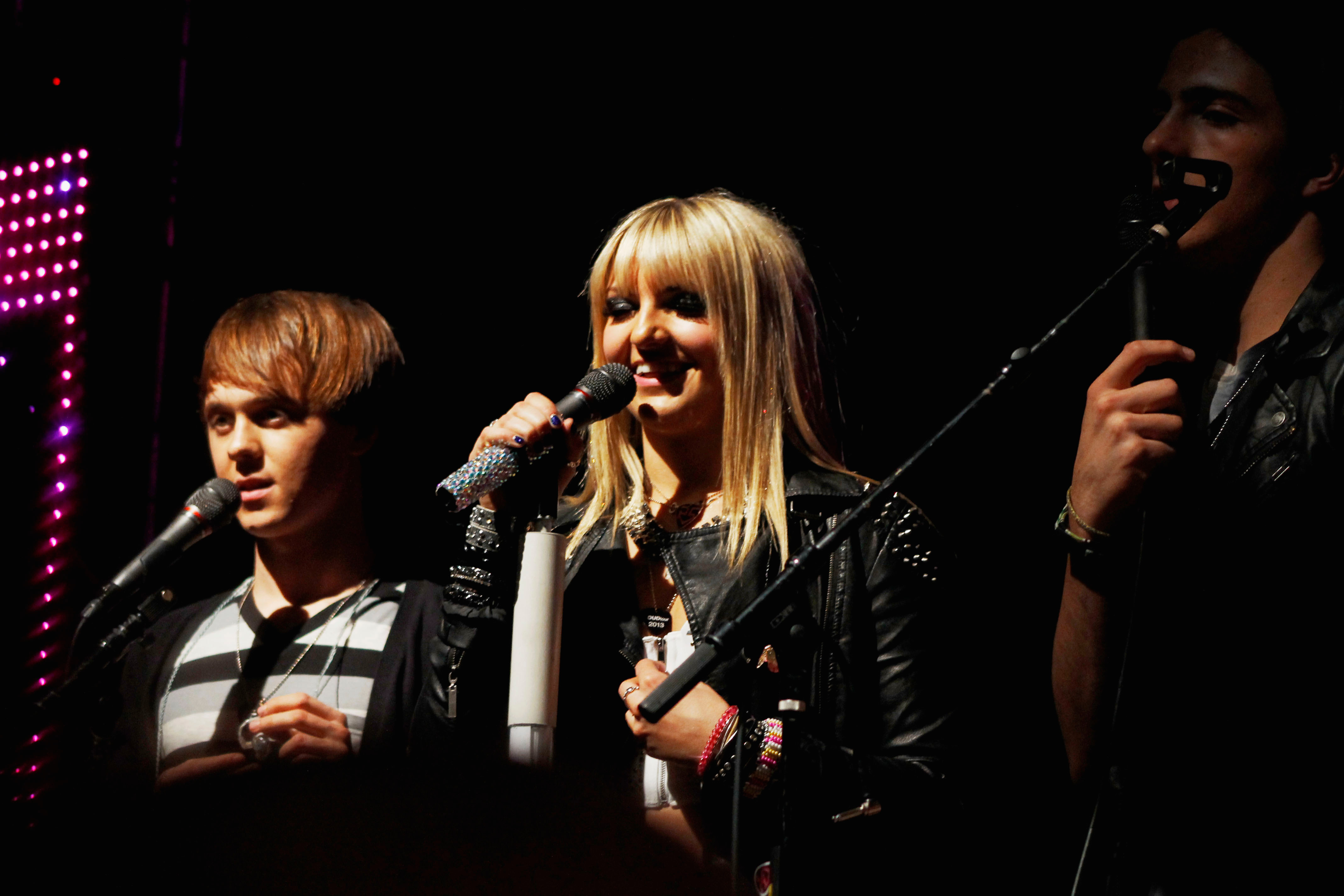 R5 Loud Tour VIP Q&A and Performance House of Blues Sunset Strip West Hollywood, CA May 19th, 2013